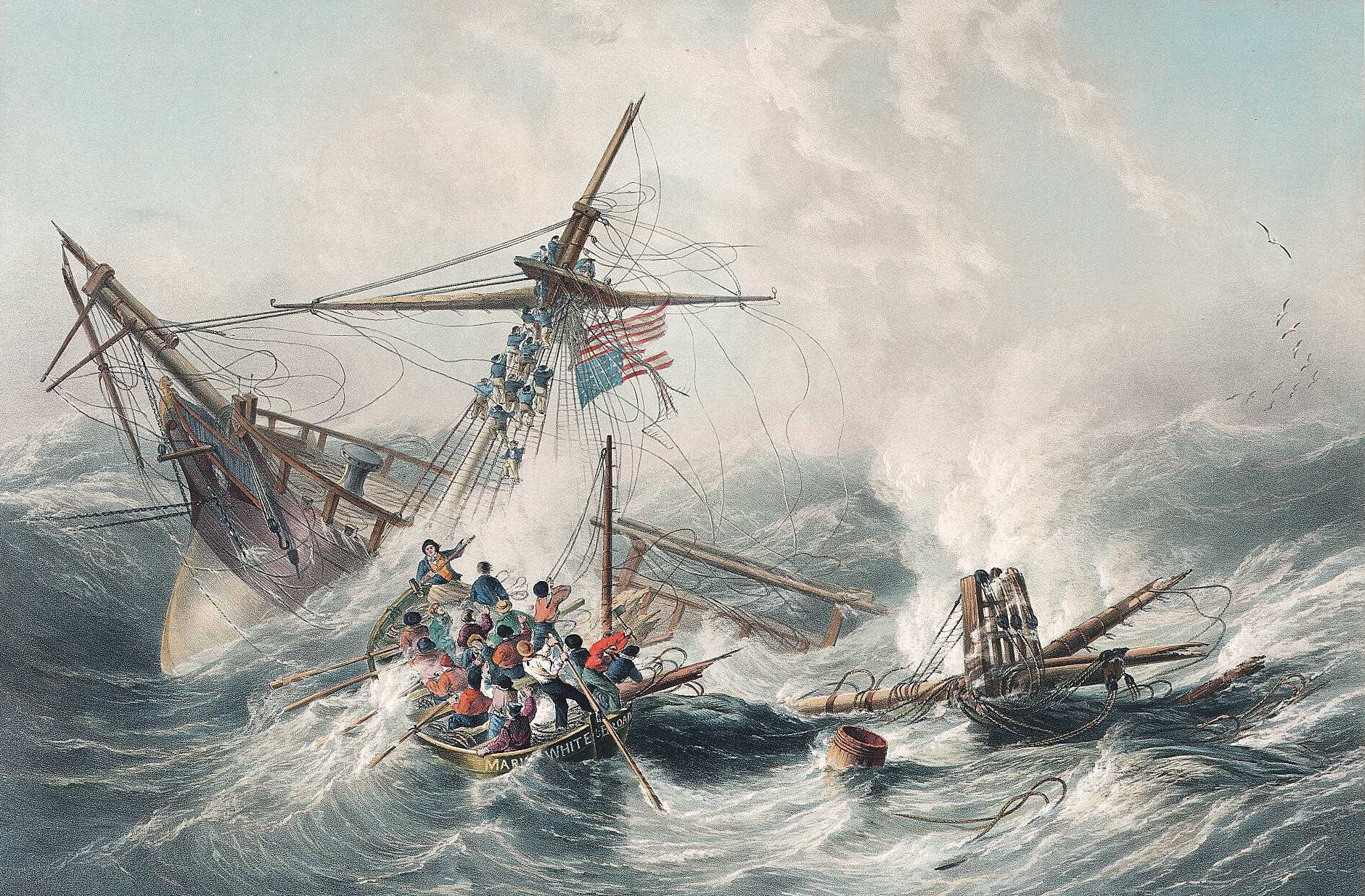 The Mary White life boat rescuing the crew of the American Ship the Northern Belle Hand-coloured lithograph, after a painting by James Wilson Carmichael. The Mary White lifeboat rescuing the crew of the American ship the Northern Belle